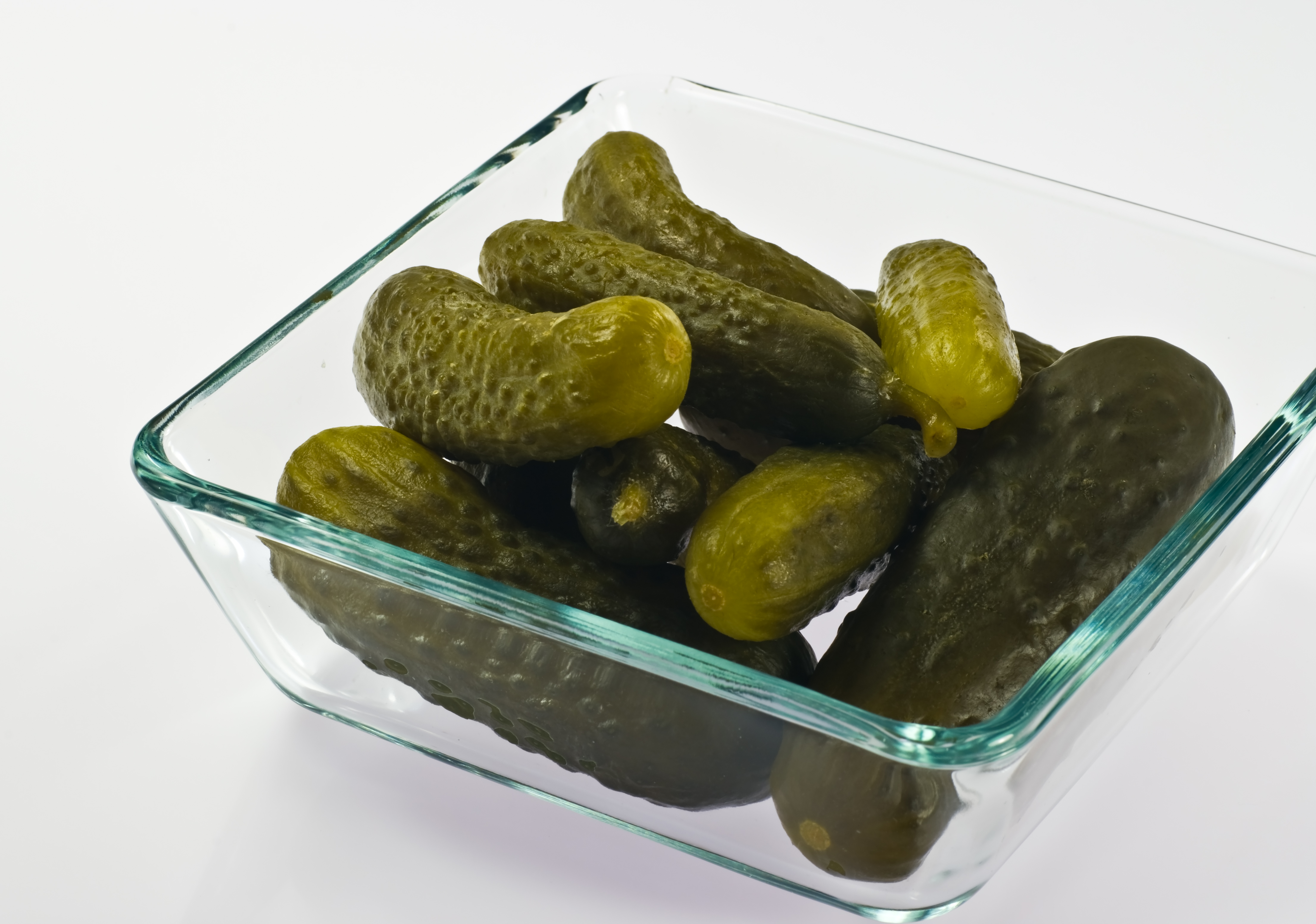 Polish style pickled cucumbers